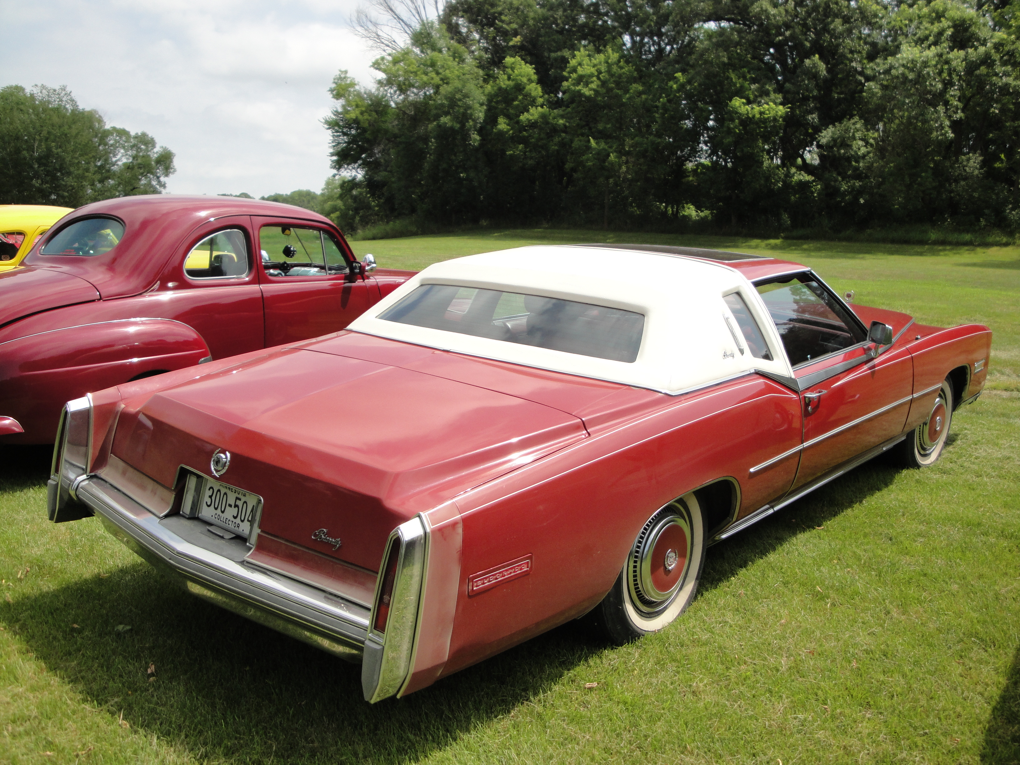 Willmar Car Club members Paul & Carol Aasen host the 5th Annual Classic Cruise In